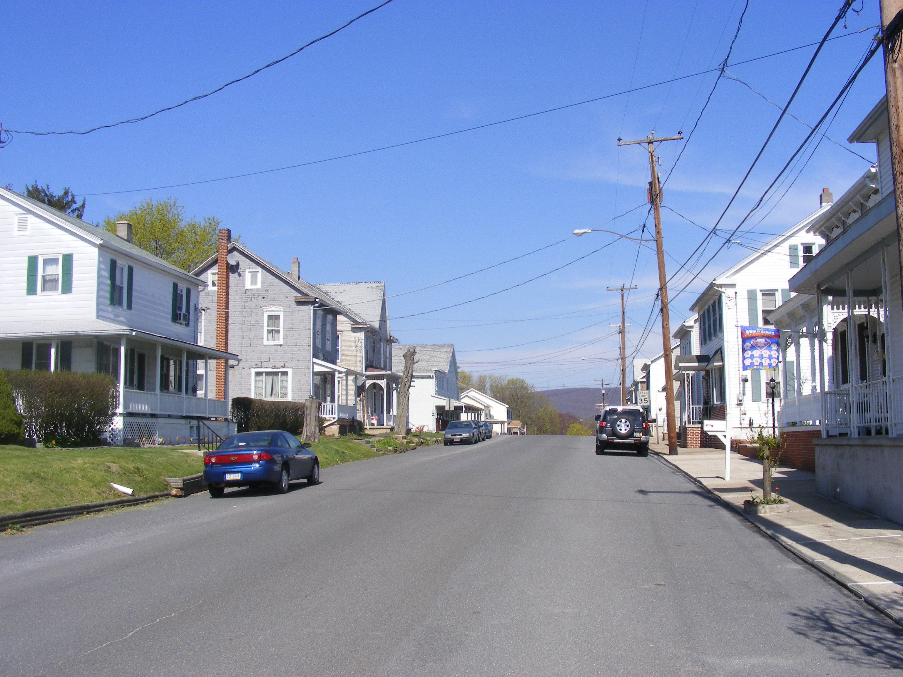 Wiconisco Street in Muir, facing East.